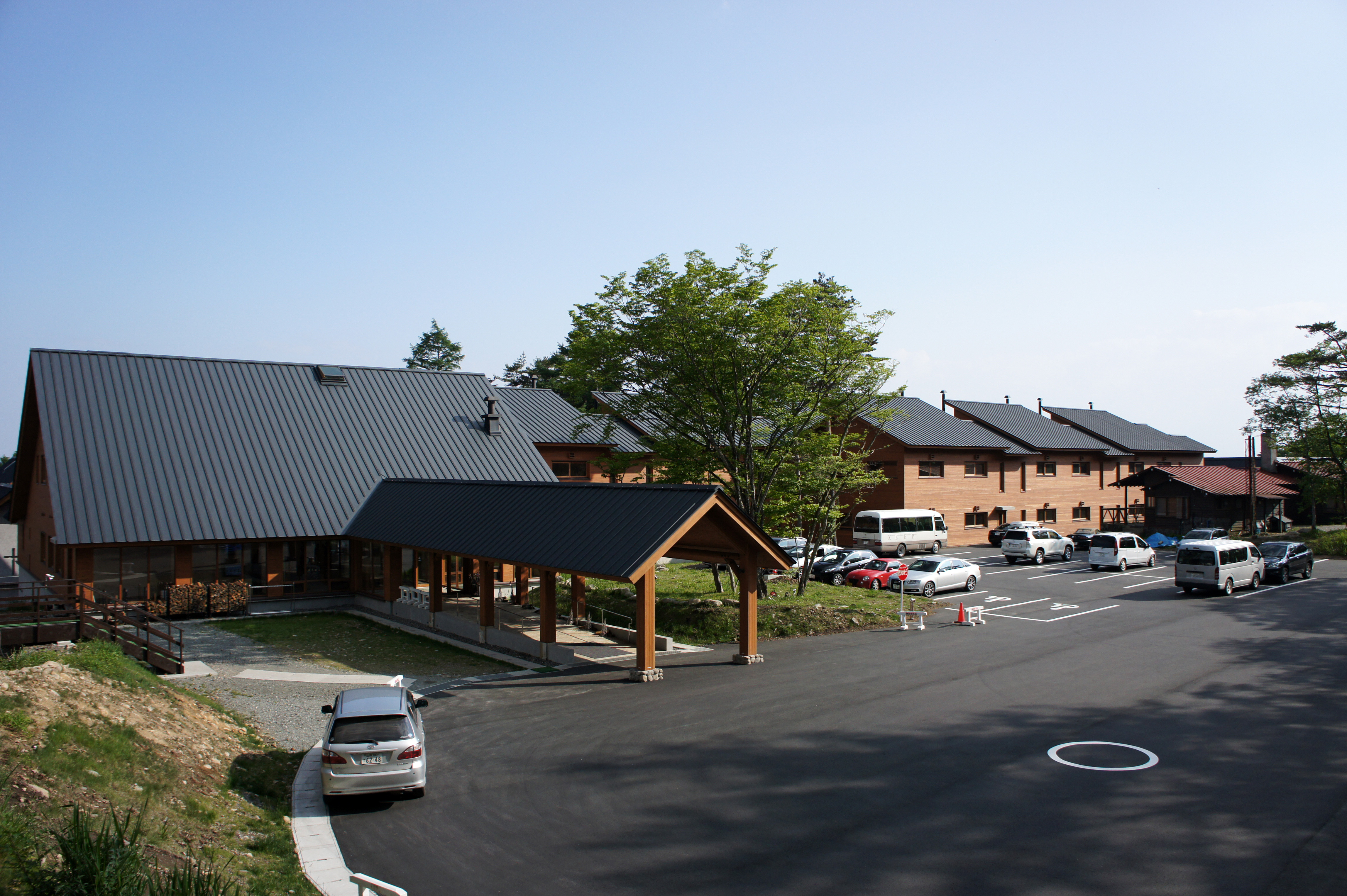 Seisen-ryo in Kiyosato, Hokuto, Yamanashi prefecture, Japan.